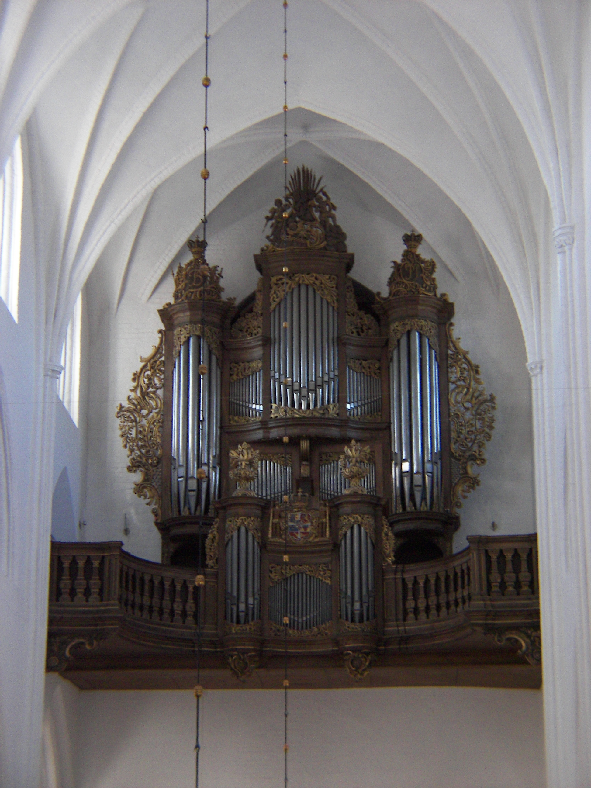 The organ in Odense cathedral, Denmark